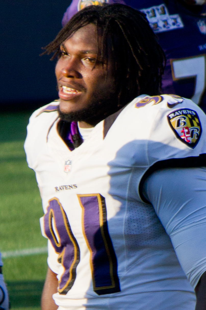 Courtney Upshaw, Ravens practice at Navy–Marine Corps Memorial Stadium practice, August 2012.